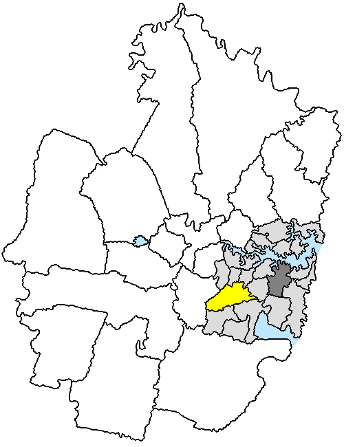 Map of Sydney/New South Wales/Australia, LGA of Canterbury City highlighted